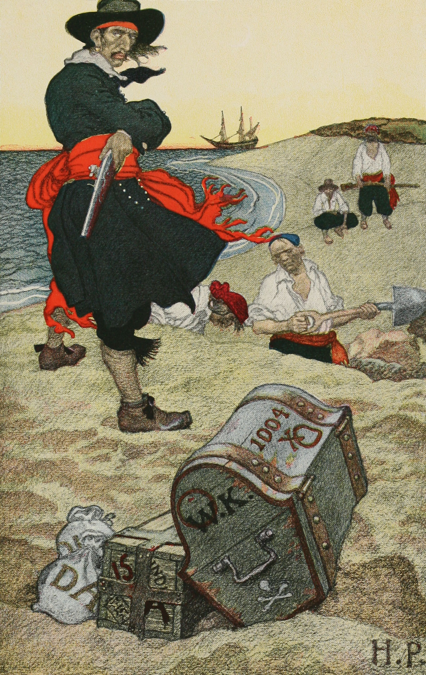 Buried Treasure: illustration of William "Captain" Kidd overseeing a treasure burial